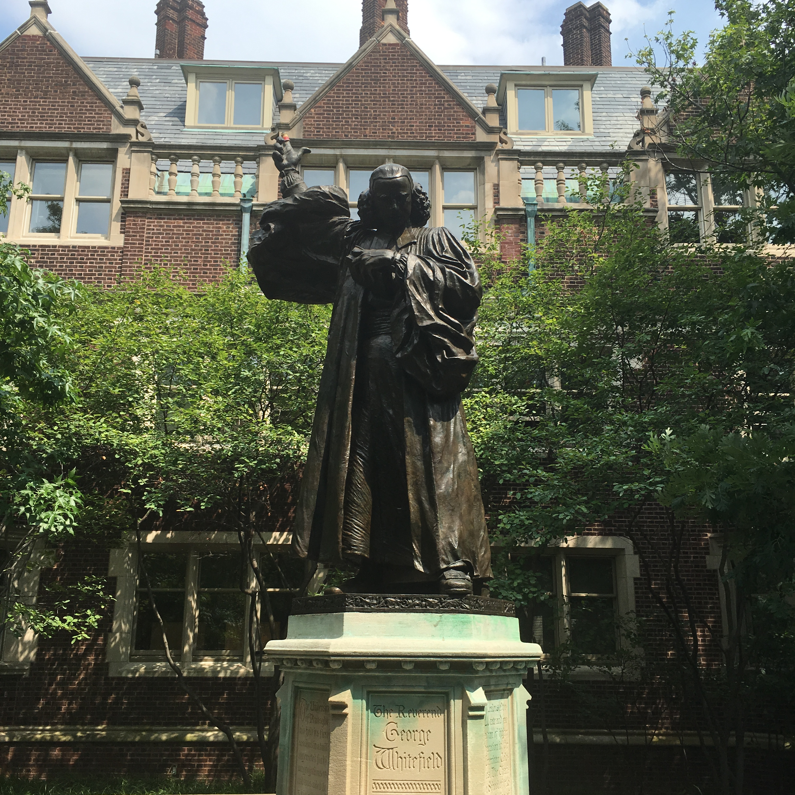 The Reverend George Whitefield (1919), by R. Tait McKenzie, Quadrangle Dormitories, University of Pennsylvania.